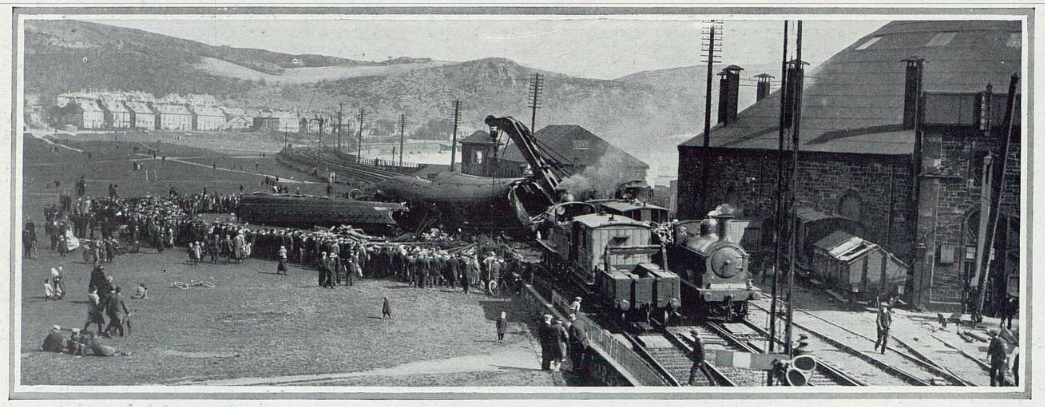 From the Sphere, 18 April 1914. The Flying Scotsman was wrecked at Burntisland